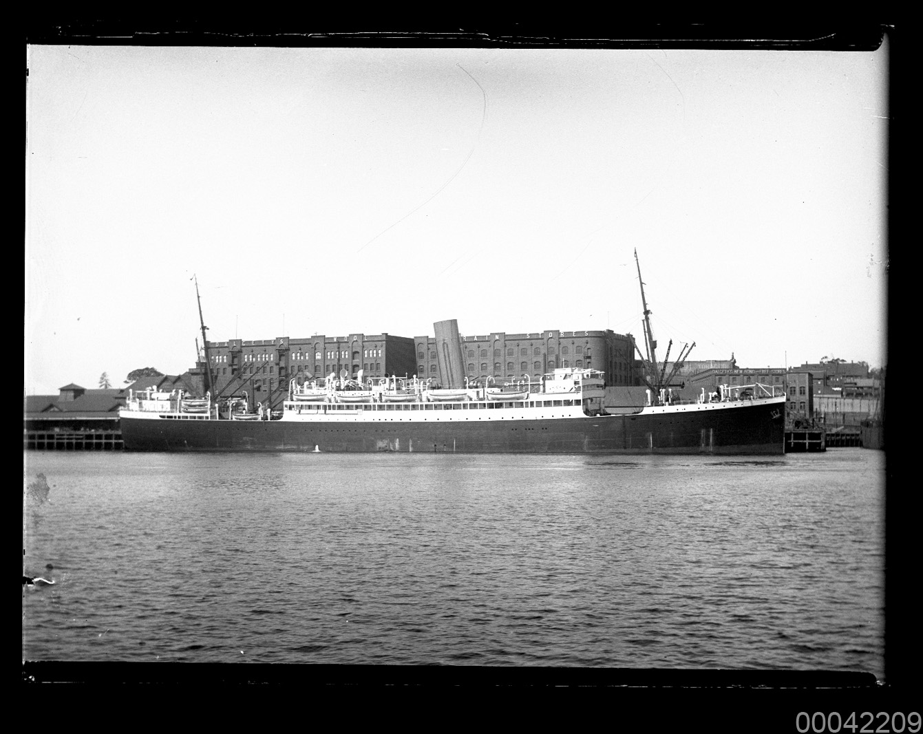 Frederick Wilkinson took this photograph aboard a ferry from Darling Street, Balmain East of the SOPHOCLES at the Aberdeen Wharf at Millers Point, Sydney on Saturday afternoon 10 November 1923. Frederick Wilkinson (1901 - 1975) migrated to Australia from England in 1911. While working various jobs in and around central Sydney, Wilkinson acquired a camera and began taking photographs of vessels and harbour scenes. Many of his images were used by commercial photographers for souvenir postcards. The ANMM undertakes research and accepts public comments that enhance the information we hold about images in our collection. This record has been updated accordingly. Photographer: Frederick Garner Wilkinson Object no. 00042209